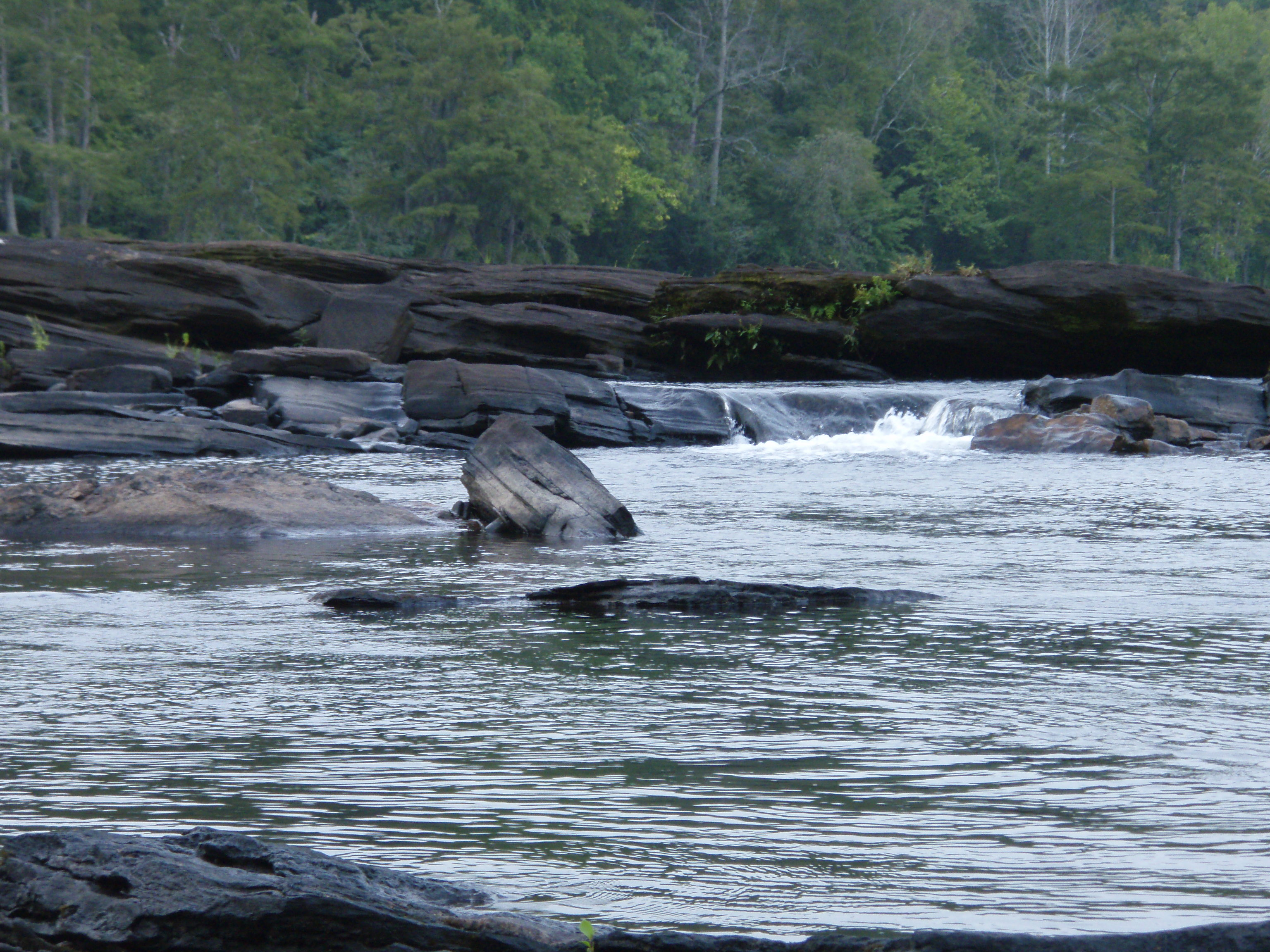 Typical Tallapoosa River Shoals Below Thurlow Dam